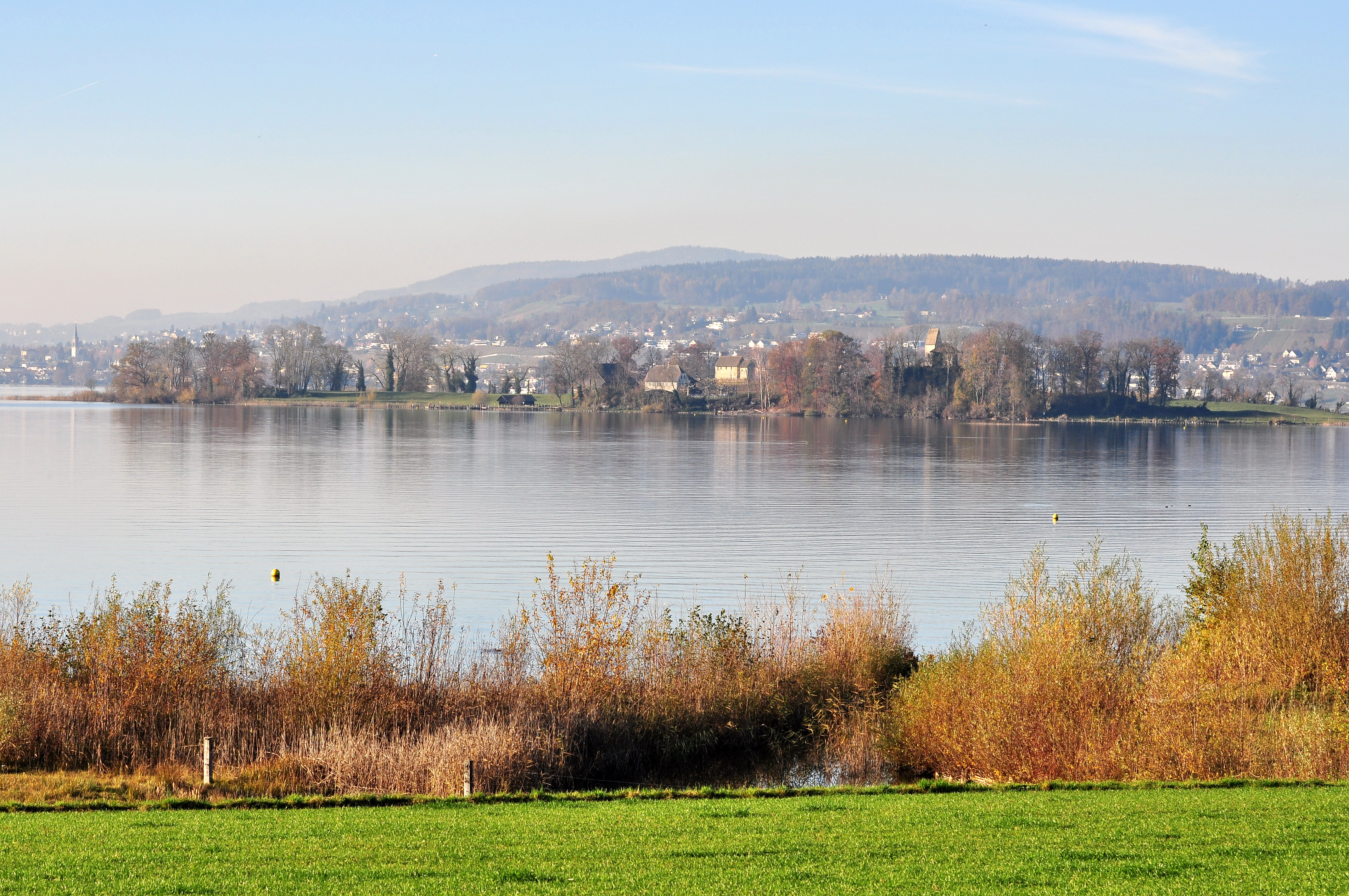 Frauenwinkel protected area on Zürichsee (Lake Zürich) in Switzerland, as seen from Seedamm, Ufenau island and Pfannenstiel in the background.